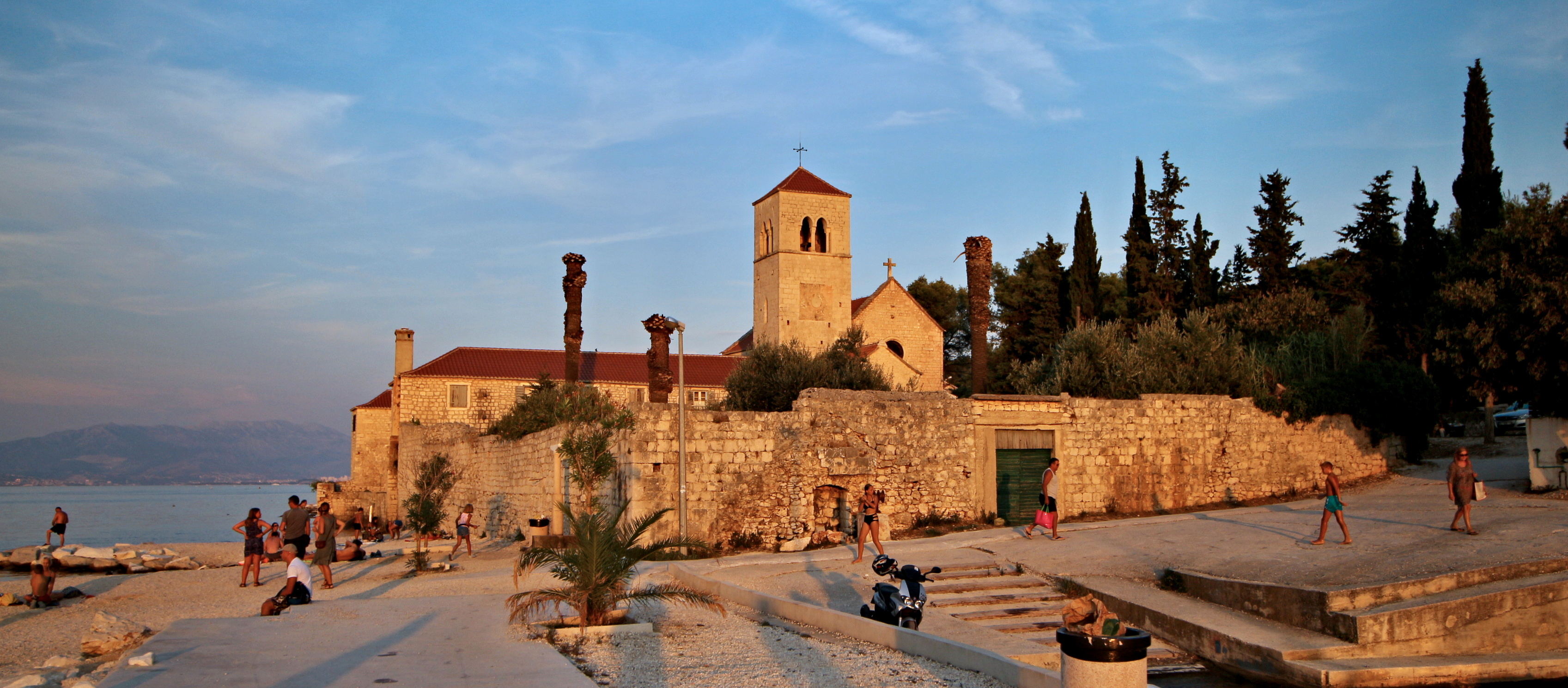 Dominican monastery with the church of the Holy Cross, Arbanija, Čiovo Island, Croatia